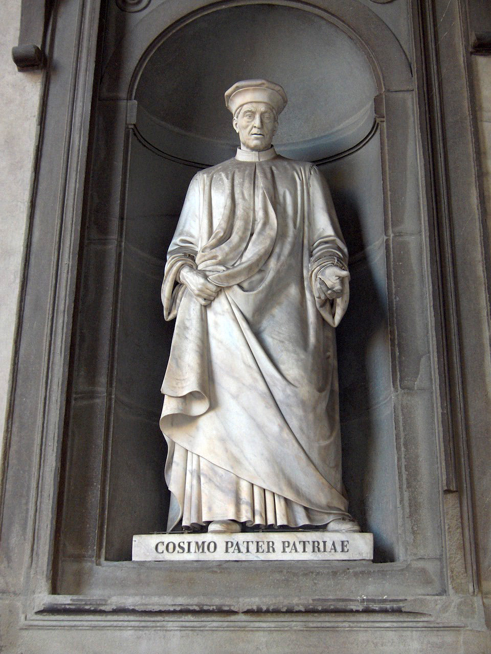 Cosimo de' Medici the Elder (1389-1464). Statue on the facade of the Uffizi, Florence. Own photo - photo taken on 12 October 2005.